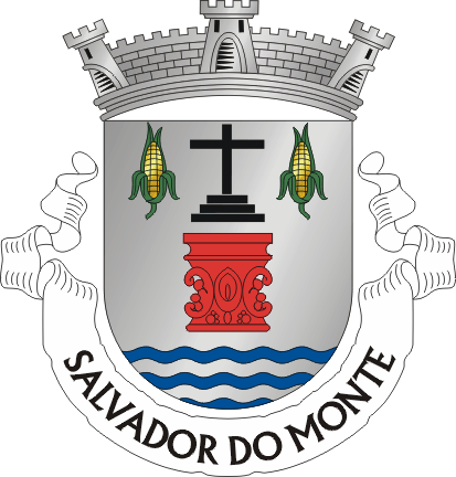 Crest of Salvador do Monte parish, Amarante municipality (Portugal)